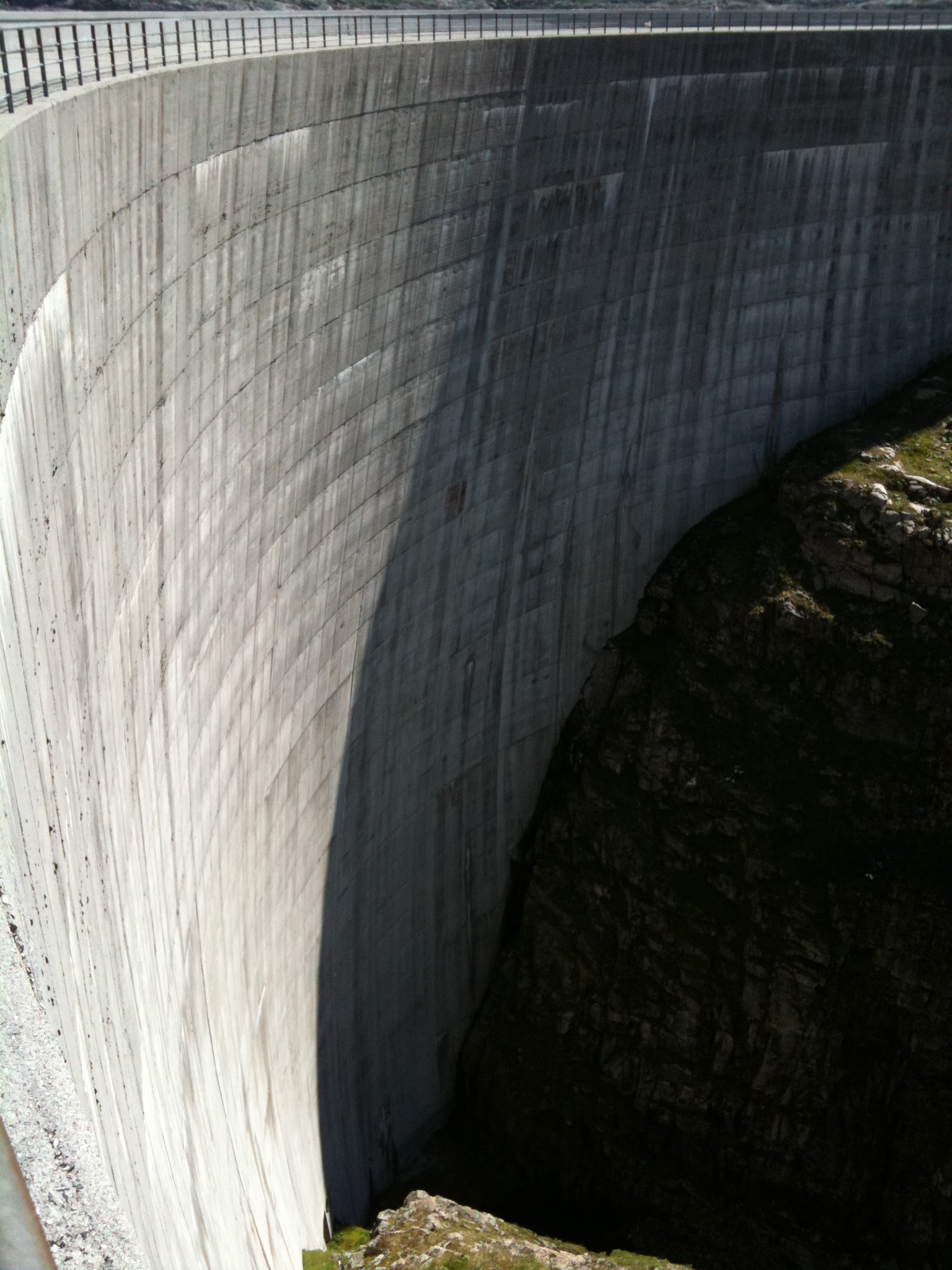 Førrevassdammen a dam in Suldal municipality in Rogaland, Norway. The dam is a part of Blåsjø.